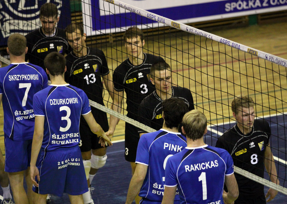 Match in I Liga Siatkówki (second division) Avia Świdnik against Ślepsk Suwałki (3:1). Świdnik, November 2010.